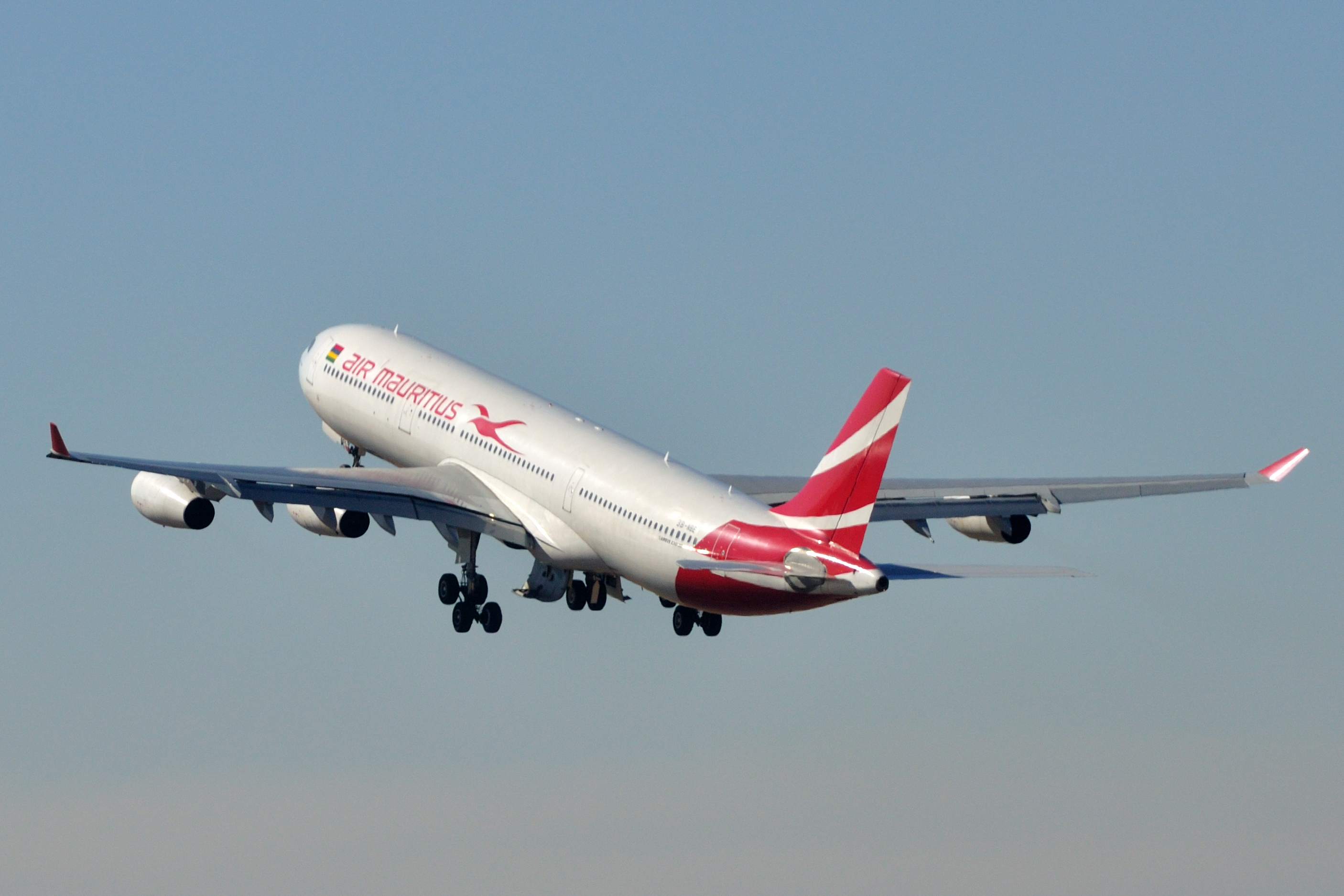 South Africa, spotting at OR Tambo International Airport